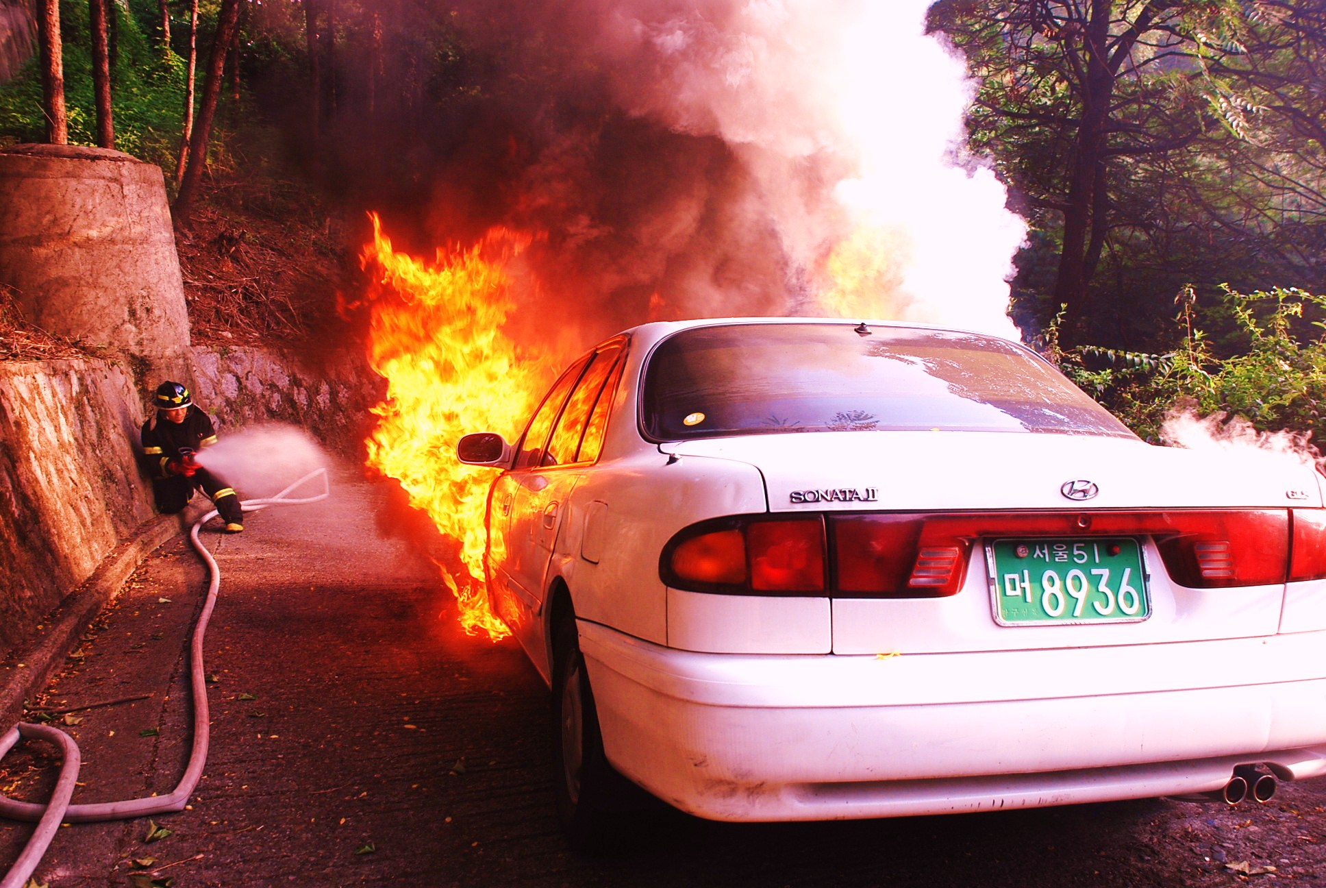 2000년대 초반 서울소방 소방공무원(소방관) 활동 사진